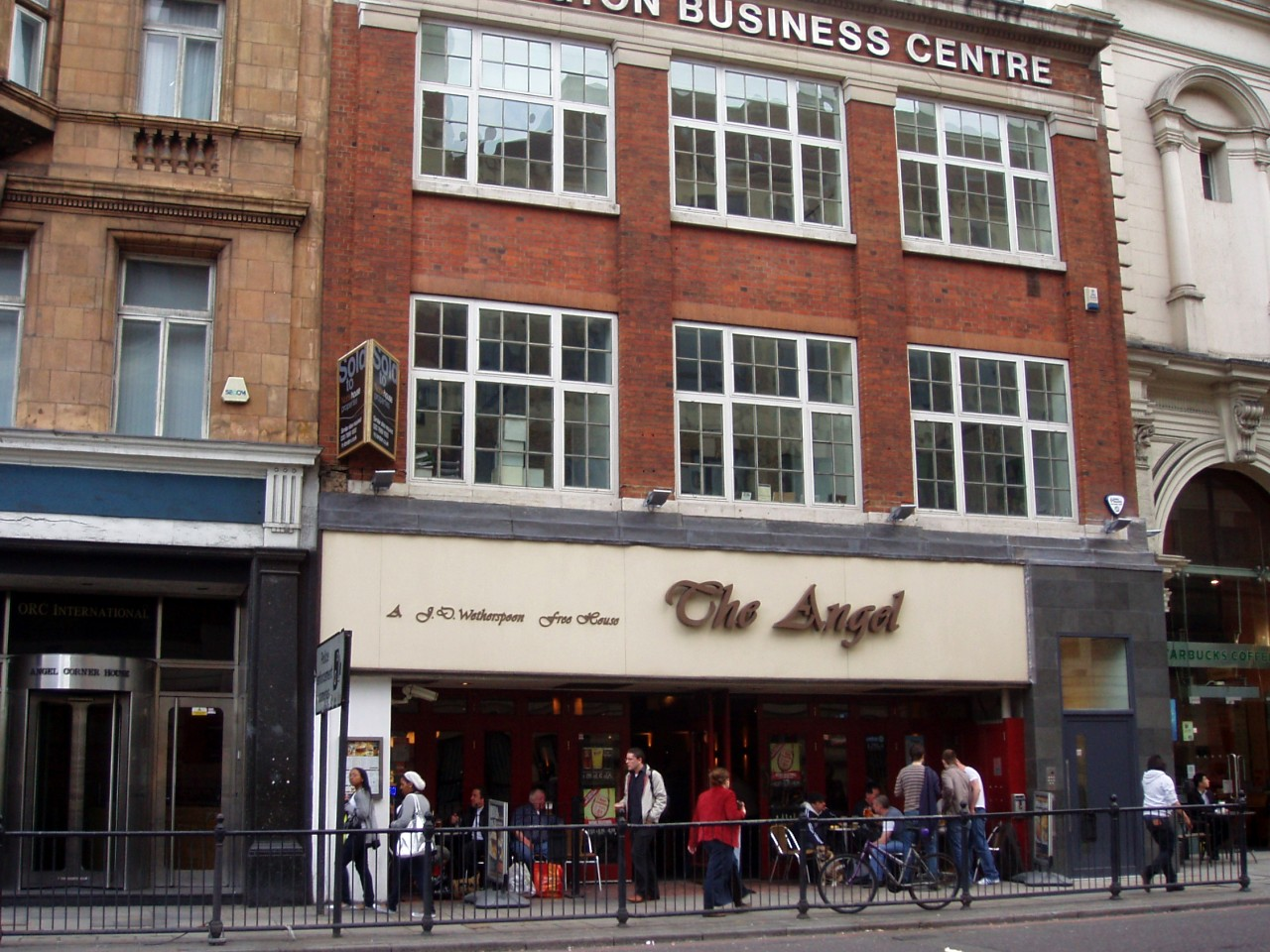 The Wetherspoons, and not great but not awful. Unless you hate these kinds of places, but you'll probably know that already. It's named after the original pub next door on the corner, which gave the area and station its name. Address: 3-5 Islington High Street. Owner: JD Wetherspoon (website). Links: London Pubology